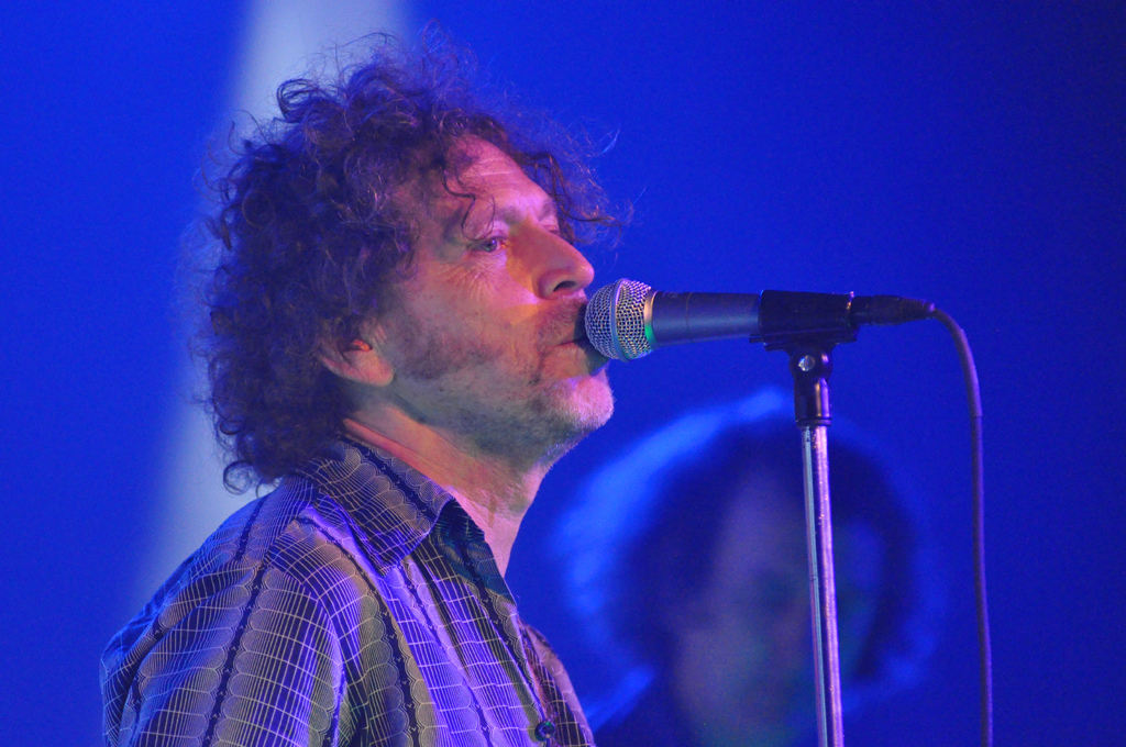 Kim Salmon, lead vocalist of The Scientists. Performing at All Tomorrow's Parties New York 2010, Monticello, NY, 3 September, 2010